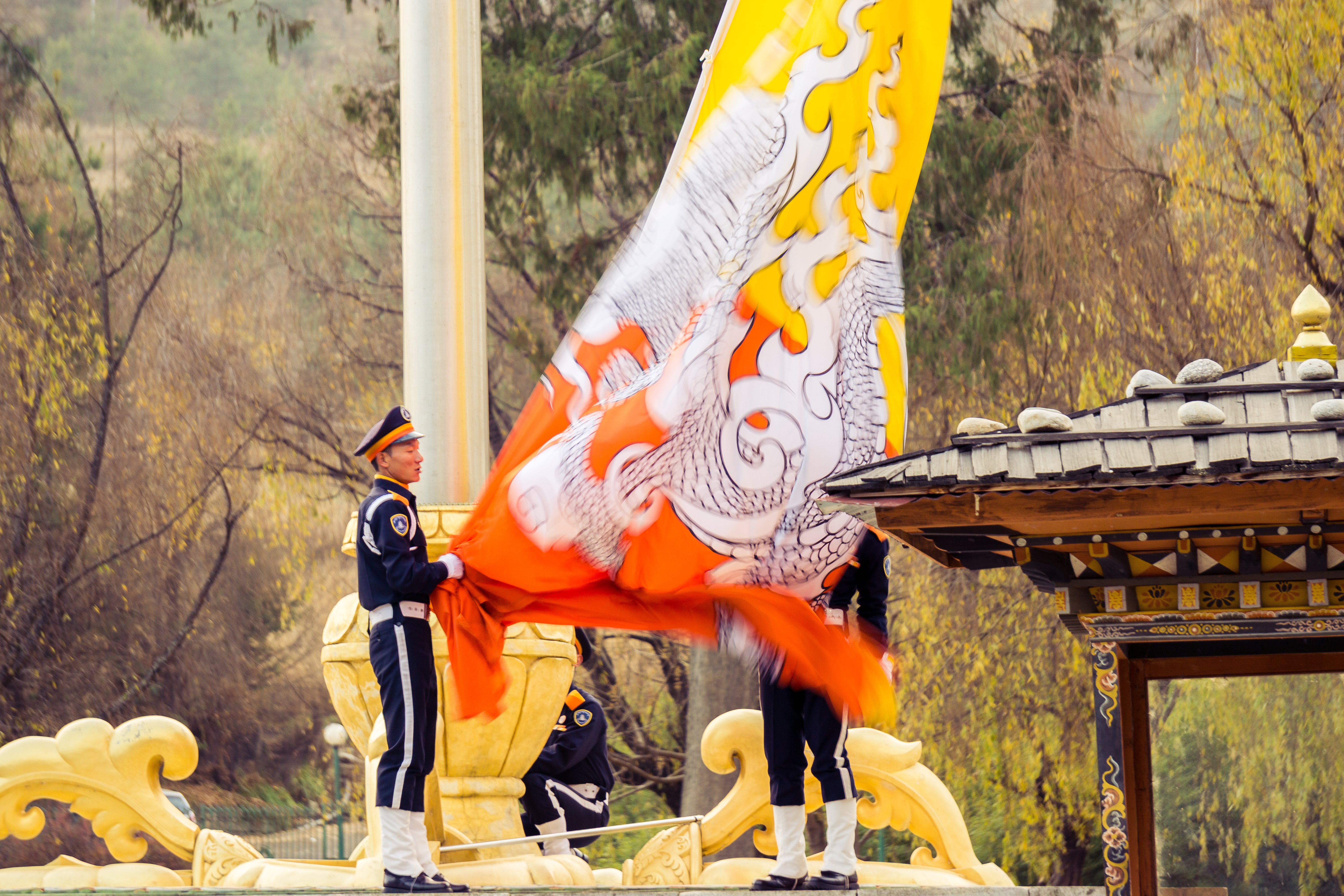 The flag, bigger than the size of a human, had to be lowered and folded by a few people. With windy conditions being windy and cold, folding the flag was a challenge in itself.